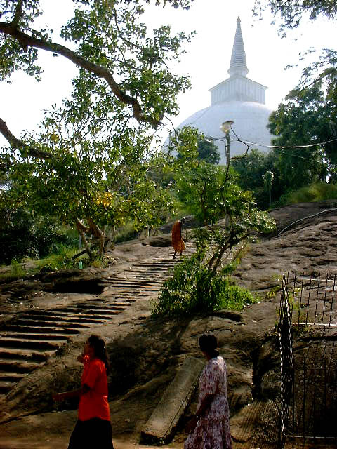 AtulaSiriwardane 16:33, 11 April 2007 (UTC)[1]